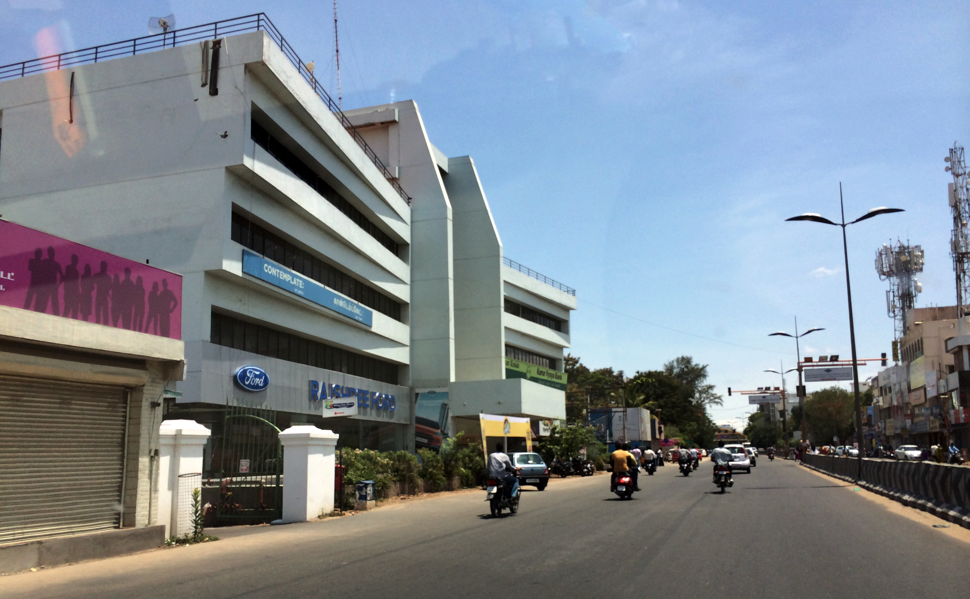 The Uffizi,a commercial office comples in Avinashi Road, Coimbatore